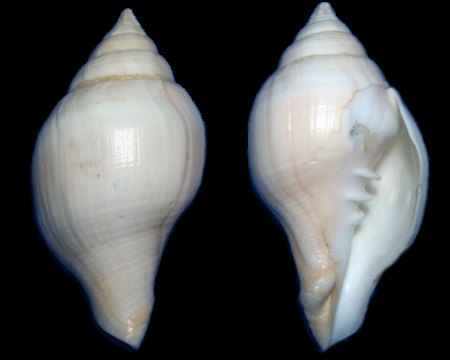 Dorsal (left) and Ventral (right) views of a shell of Turbinella laevigata from a private collection.